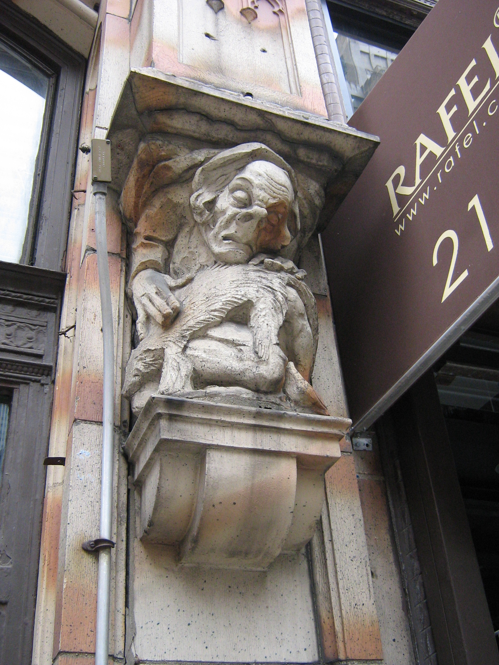 New York